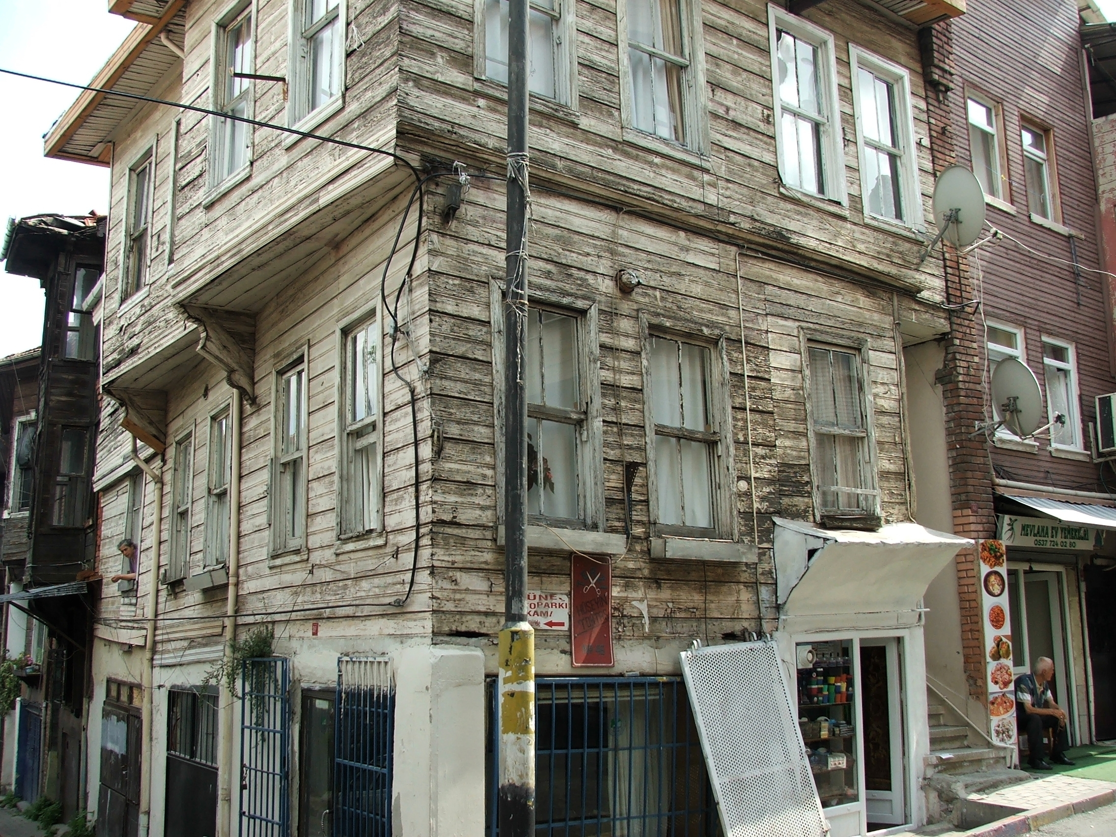 Old houses in Zeyrek quarter, Fatih, Istanbul